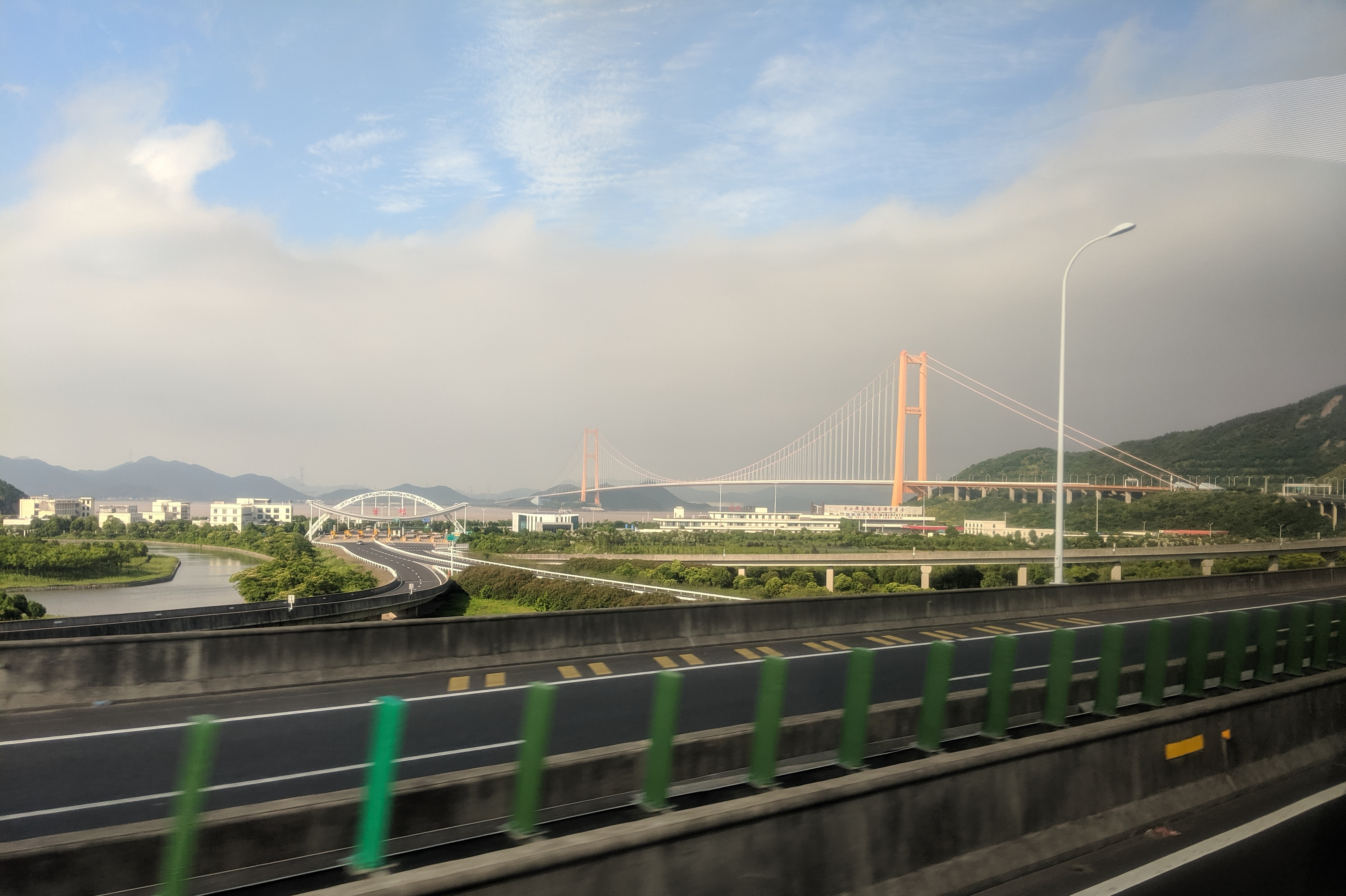 West Houmen Bridge,Zhoushan